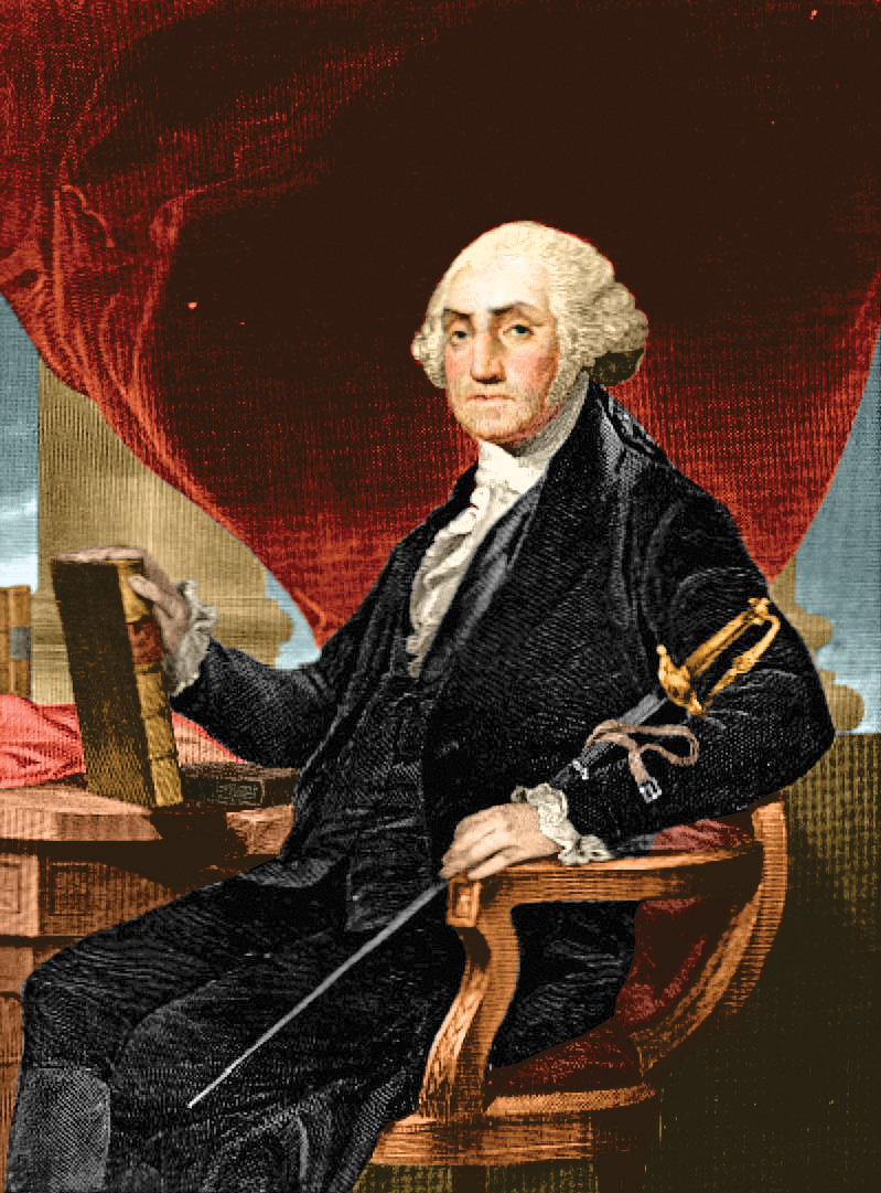 George Washington (1732-1799). Colored steel engraving